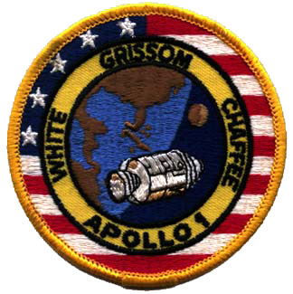 Apollo 1 Mission Insignia. (NASA)